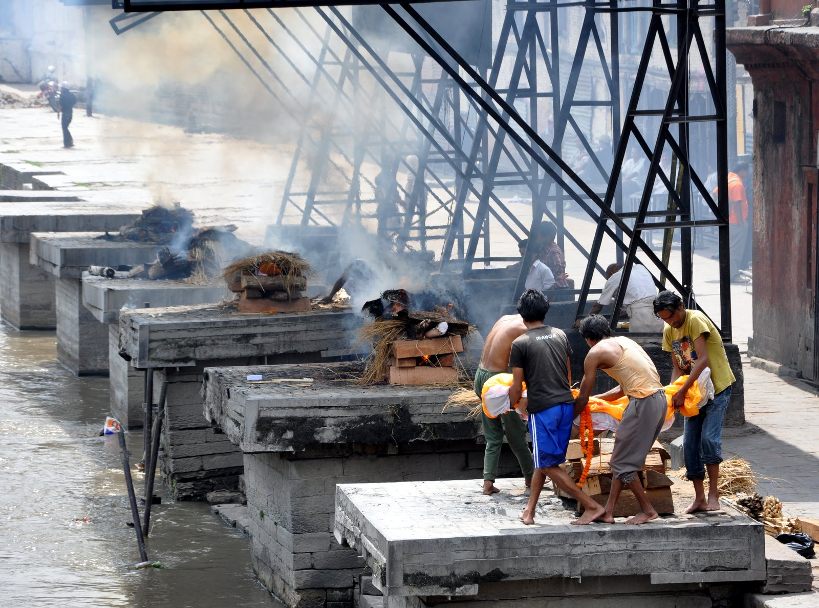 Burning ghats Kathmandu, Nepal